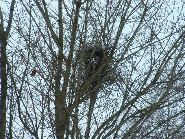 Nest built by European magpies, after one year of use. It is situated in a maple, 8 metres above ground